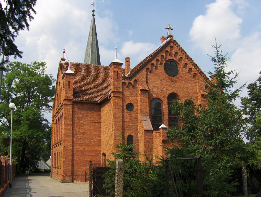 'Red' Church in Solec Kujawski